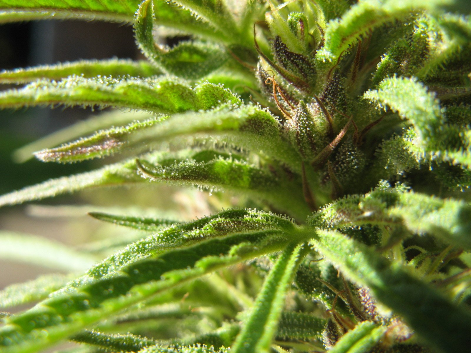 Close-up of cluster of female cannabis plant